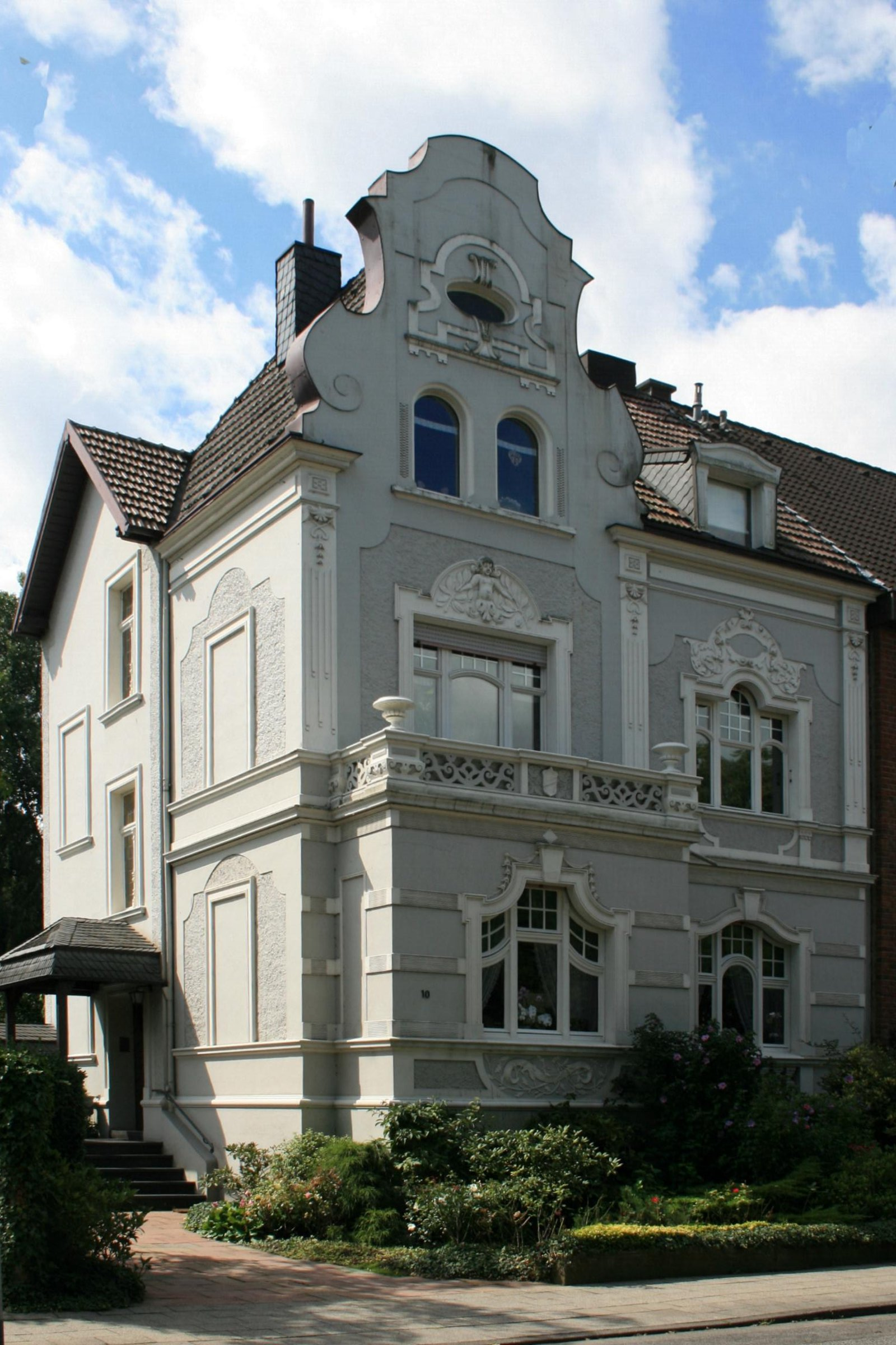 Cultural heritage monument No. J 001 in Mönchengladbach